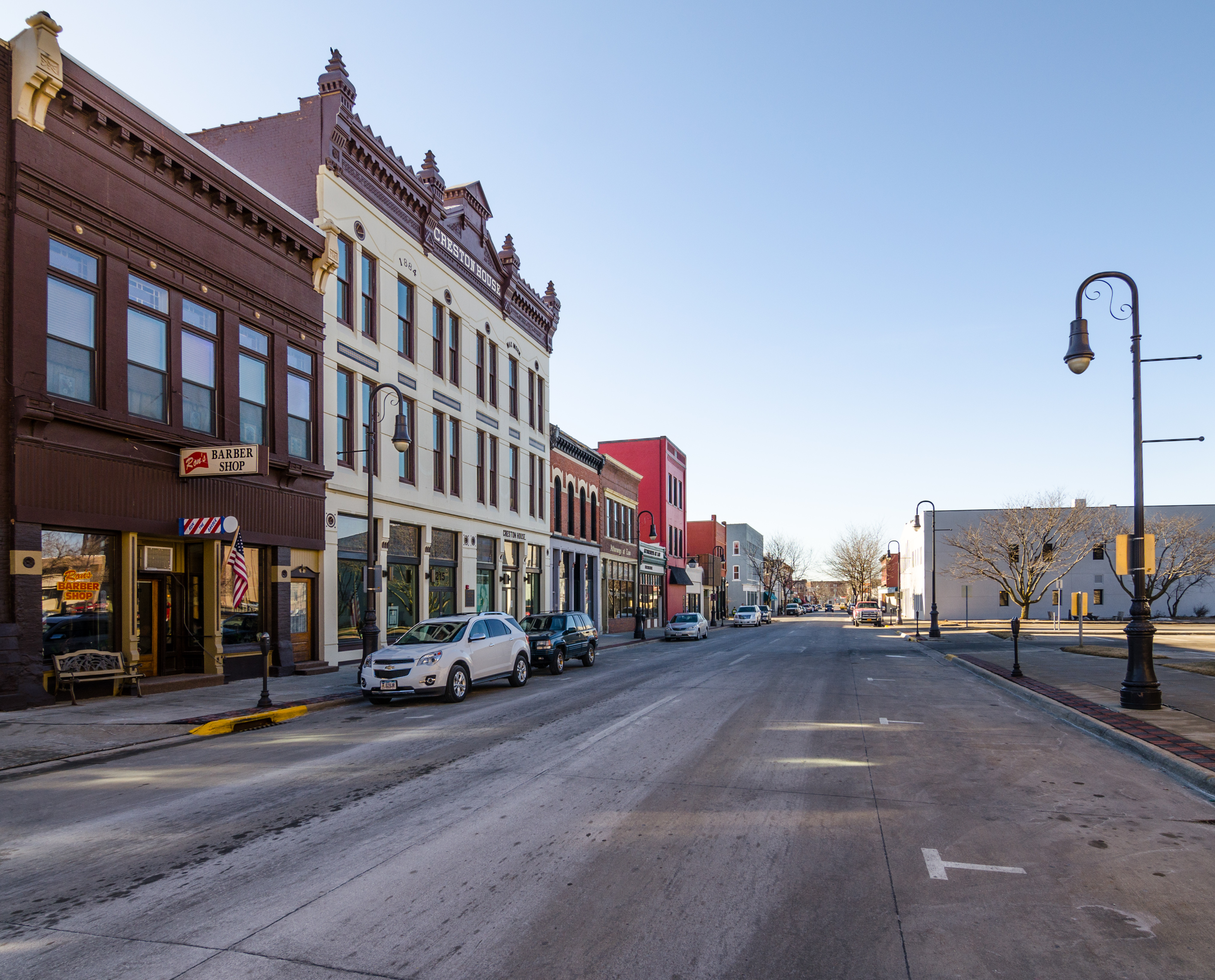 Haymarket Historic District